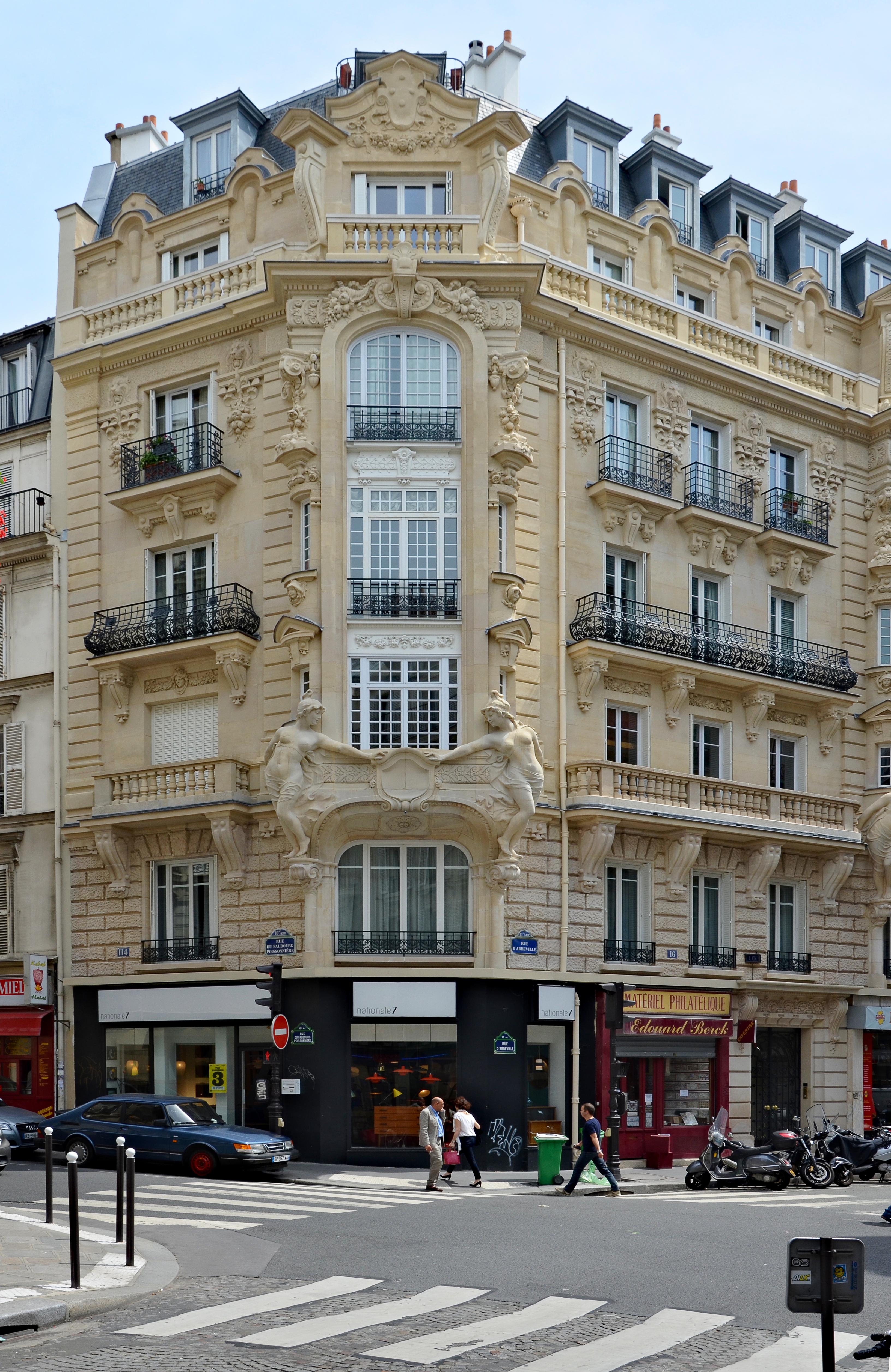 Building (1899), 16 rue d'Abbeville, Paris, 10th arr., France.